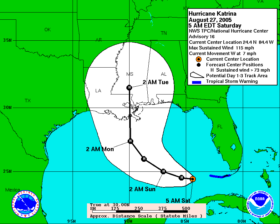 Real time NHC track forecasts of Hurricane Katrina